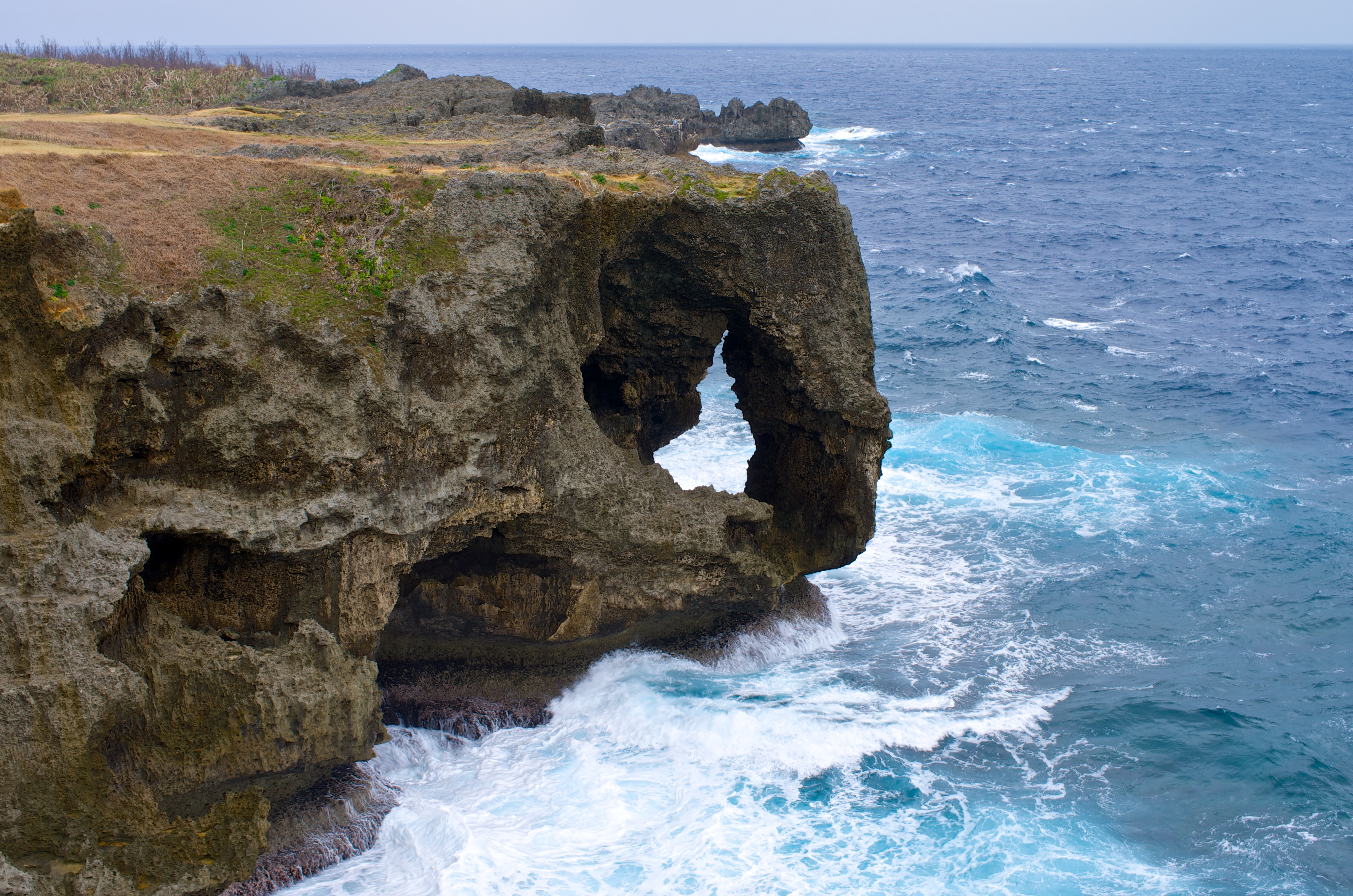 Manzamo